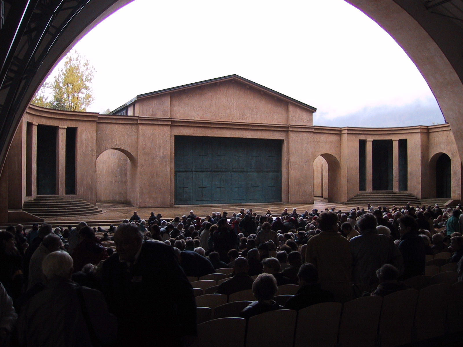 View of the stage of the Oberammergau Passion Play. 6th October 2000.